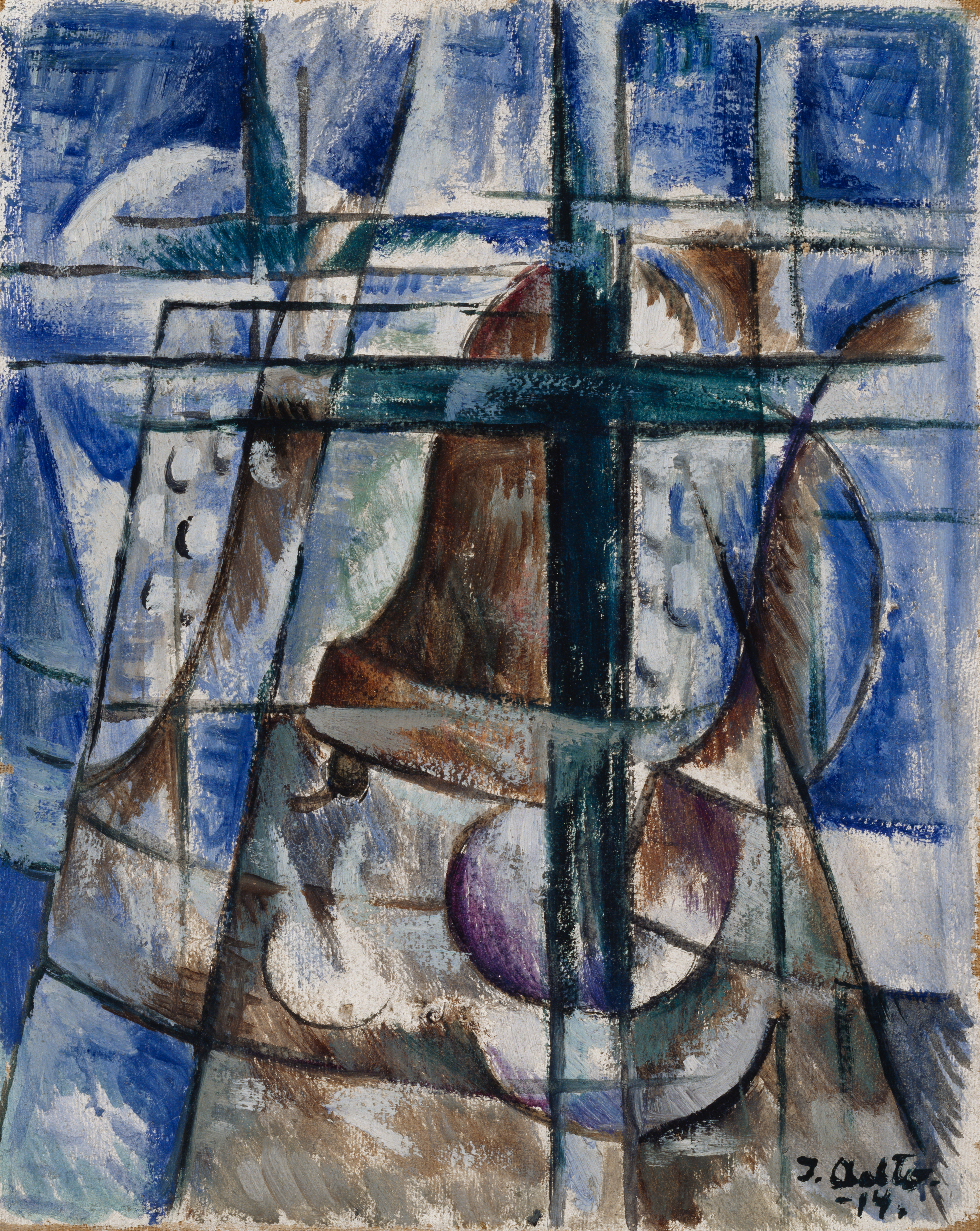 Church bells with blue background.